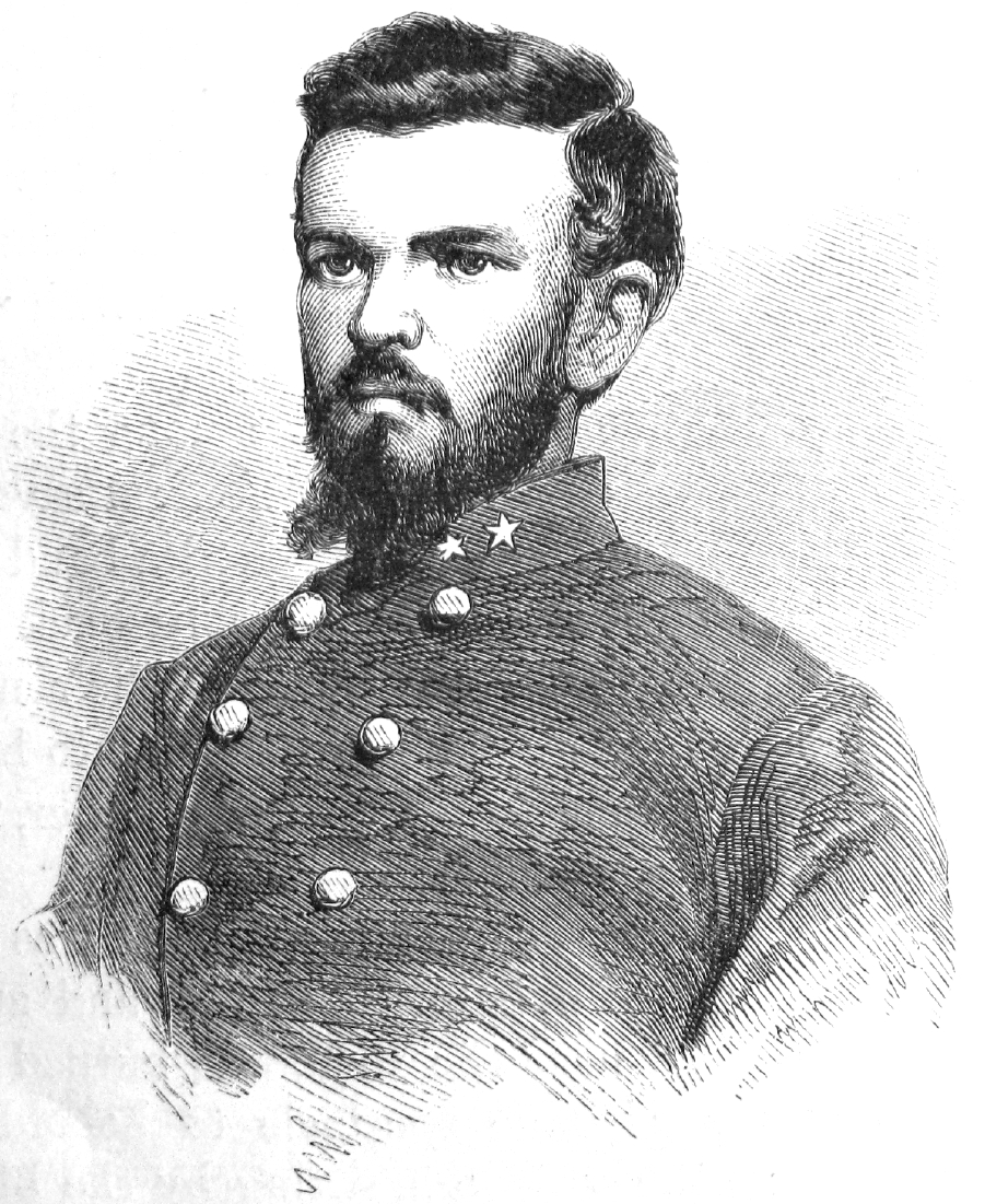 Wood engraving of Lt.Col. William Chapman, from Major John Scott, Partisan Life with Col. John S. Mosby (New York: Harper & Bros. Publishers, 1867)